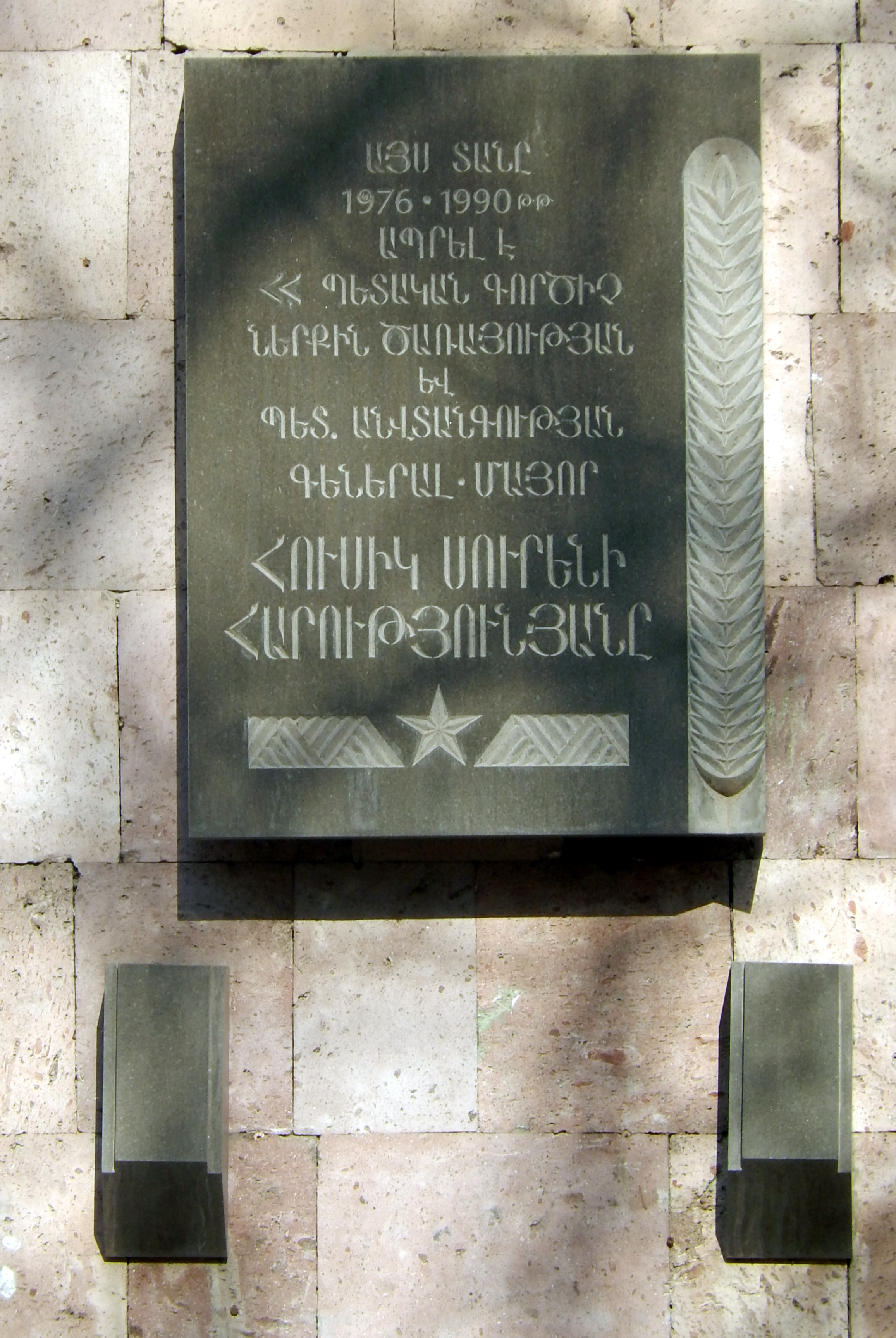 Plaque for Husik Harutyunyan